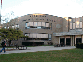 Photograph of the front entrance of Morrison High School (Illinois).